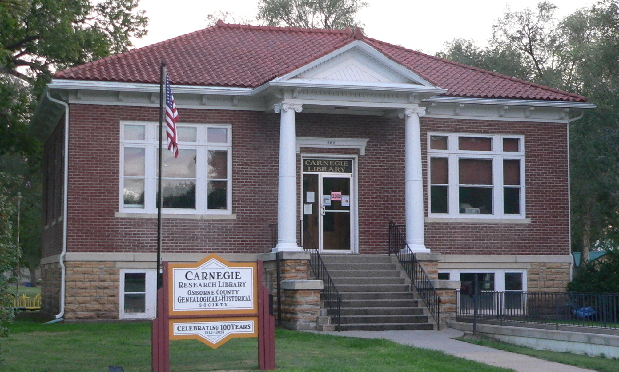 Carnegie Research Library, operated by the Osborne County Genealogical and Historical Society, occupying the former Carnegie library at 307 W. Main Street in Osborne, Kansas; seen from the northeast.